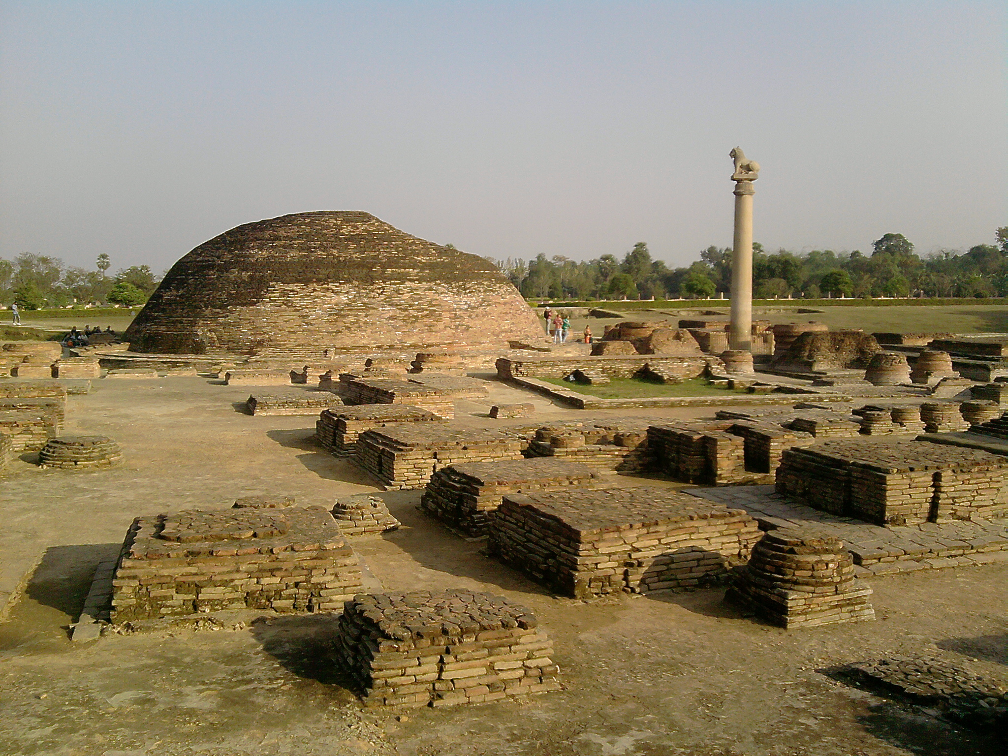 Birthplace of Mahavir (Originator of Jainism) & the Ashoka Pillar near Relic Stupa